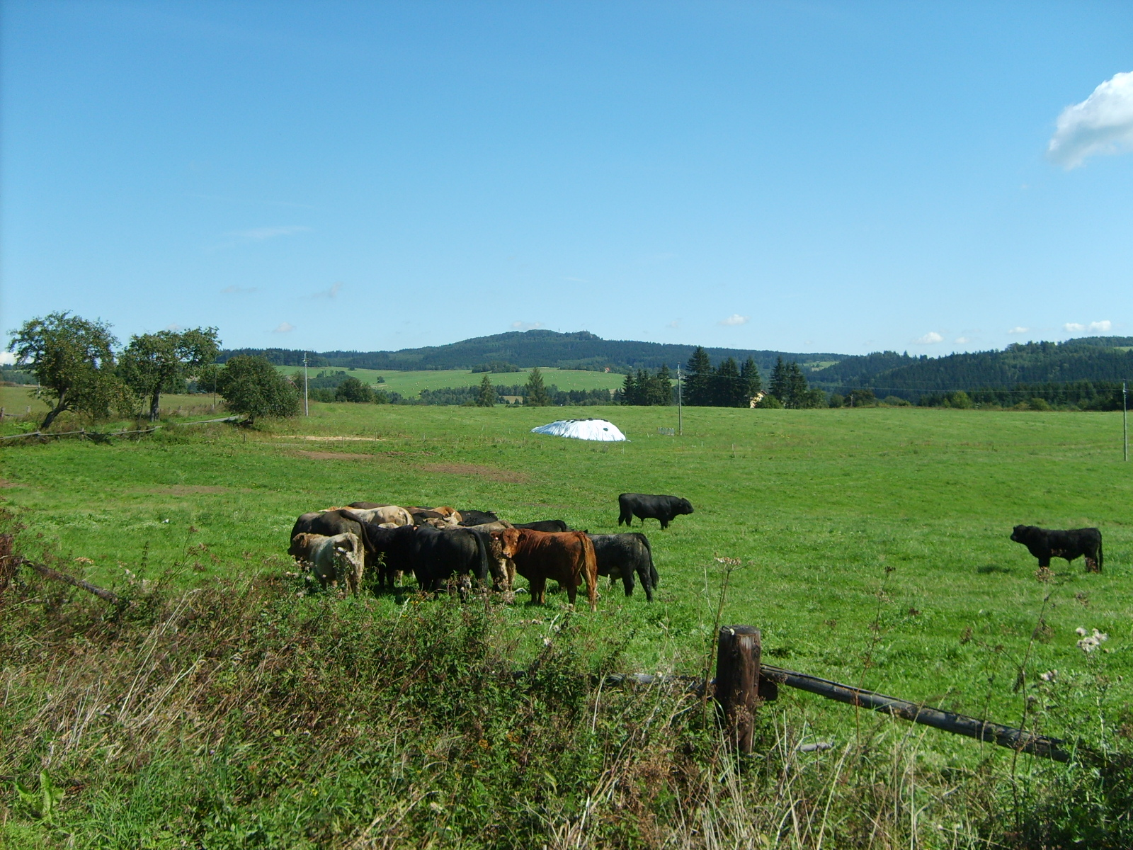 Teplá tableland countryside near Mariánské Lázně, Czech r. In background the biggest hill - Podhorní vrch 846 m.